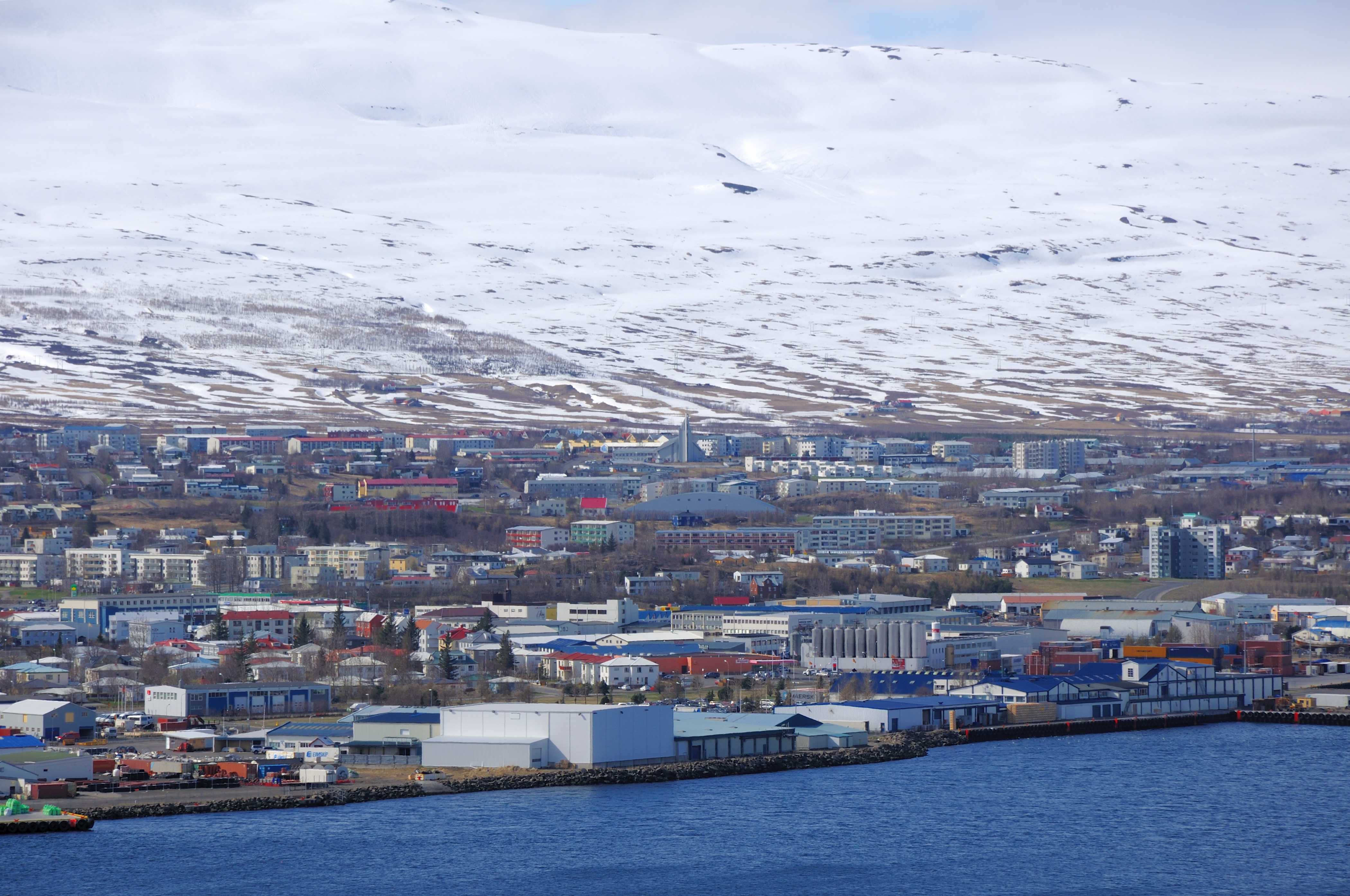 Iceland, Akureyri